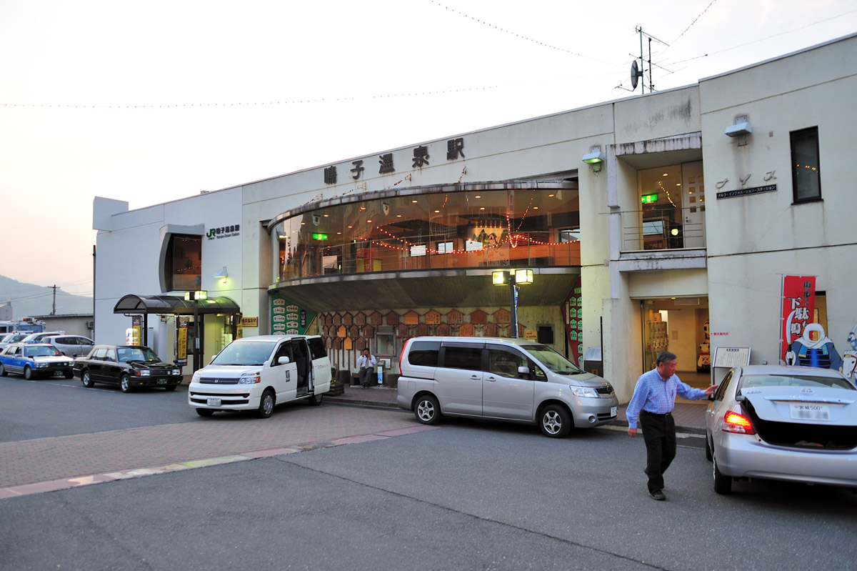 JR East Naruko-Onsen Station